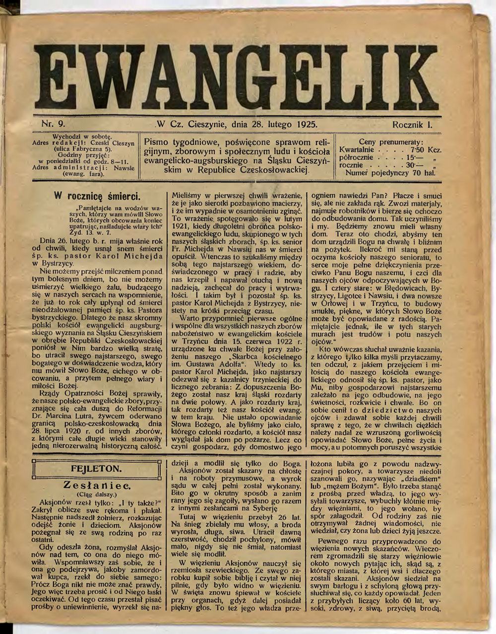 Front page of the Ewangelik magazine, 28 February 1925